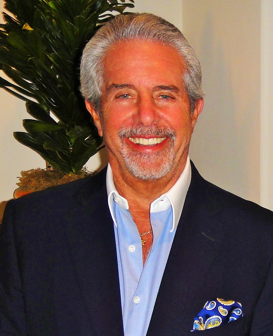 Michael Jay Solomon, Media Executive